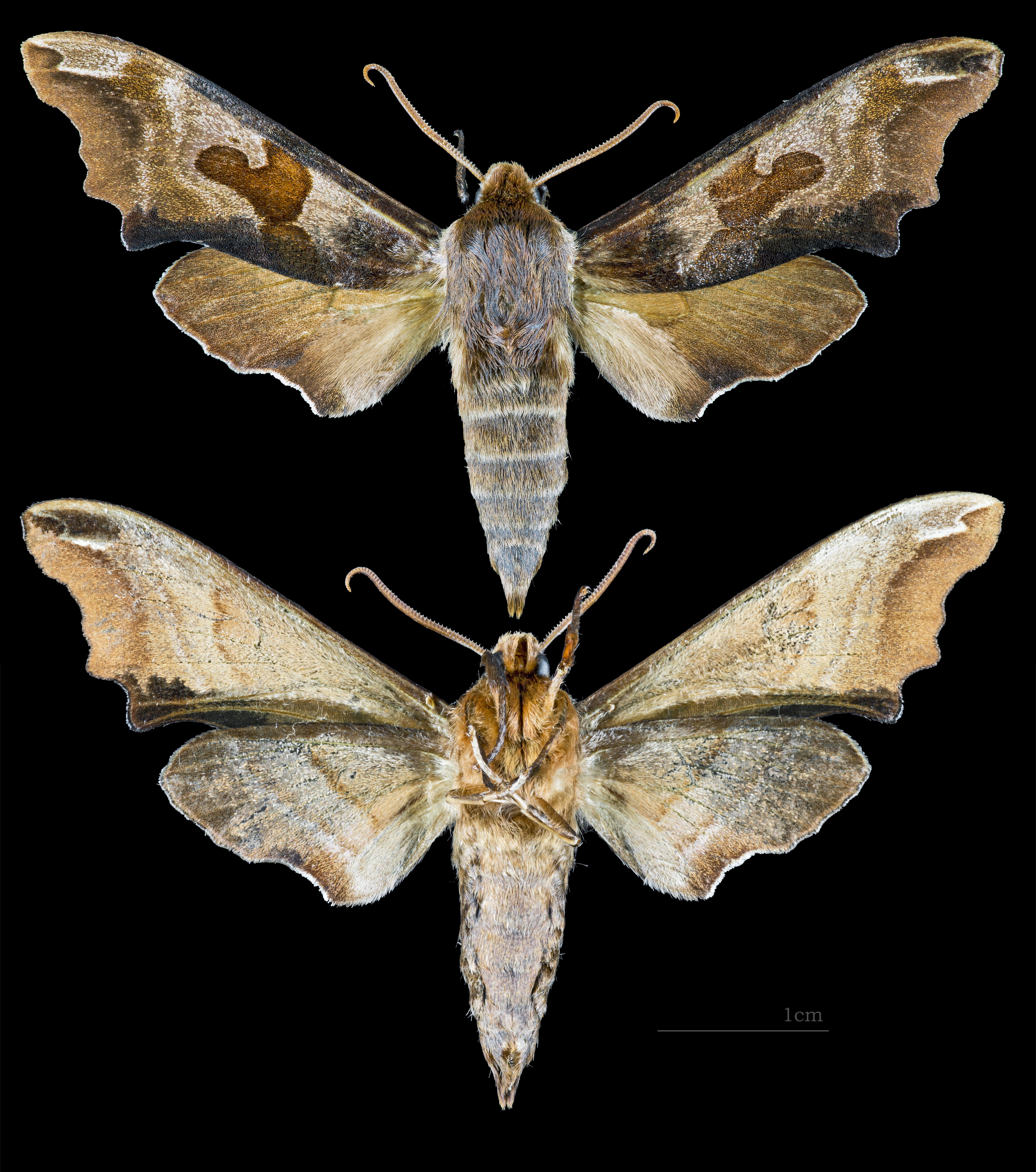 Mimas christophi - Two views of same specimen Collection of the Mathematician Laurent Schwartz